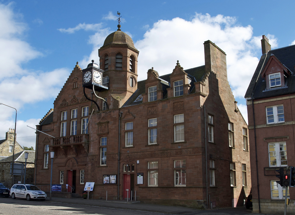 Cowan Institute in 200